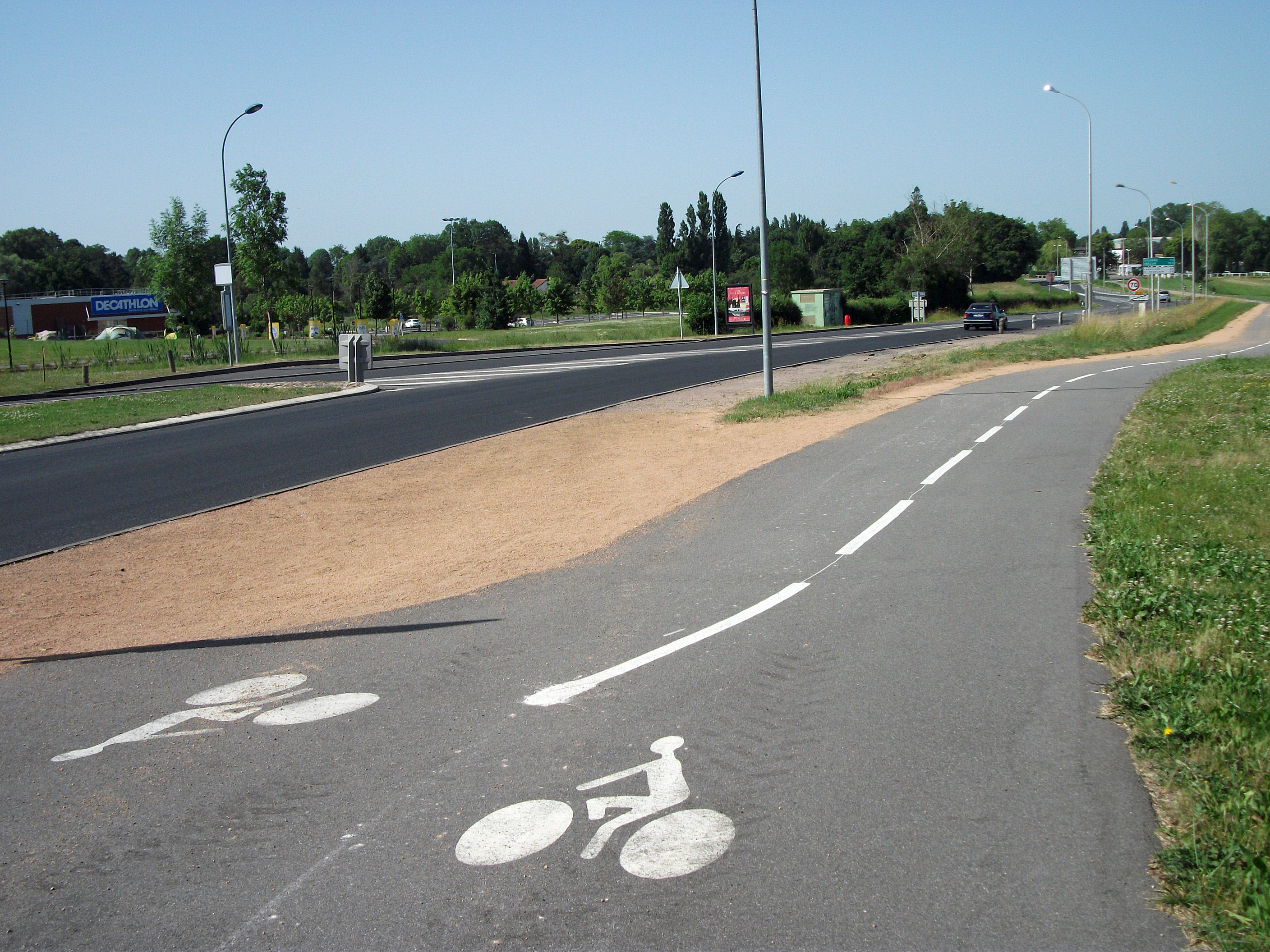 Existing since 2011, cycle track (asphalt) along the route départementale 6. Part of a cycle route.